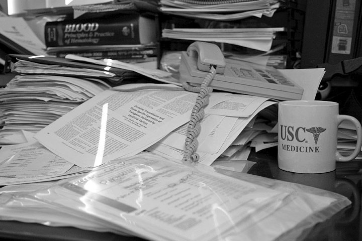 Paperwork